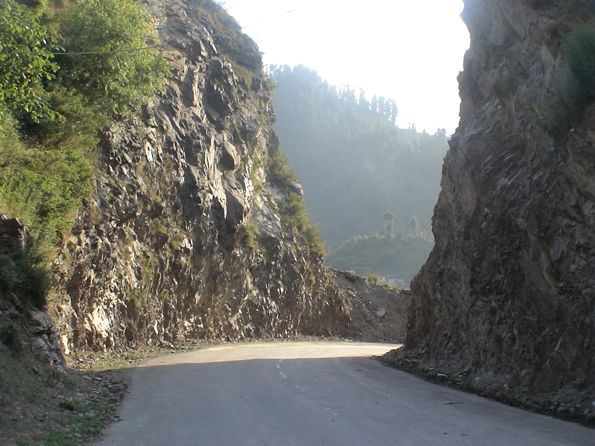 The road has already been opened to light vehicles